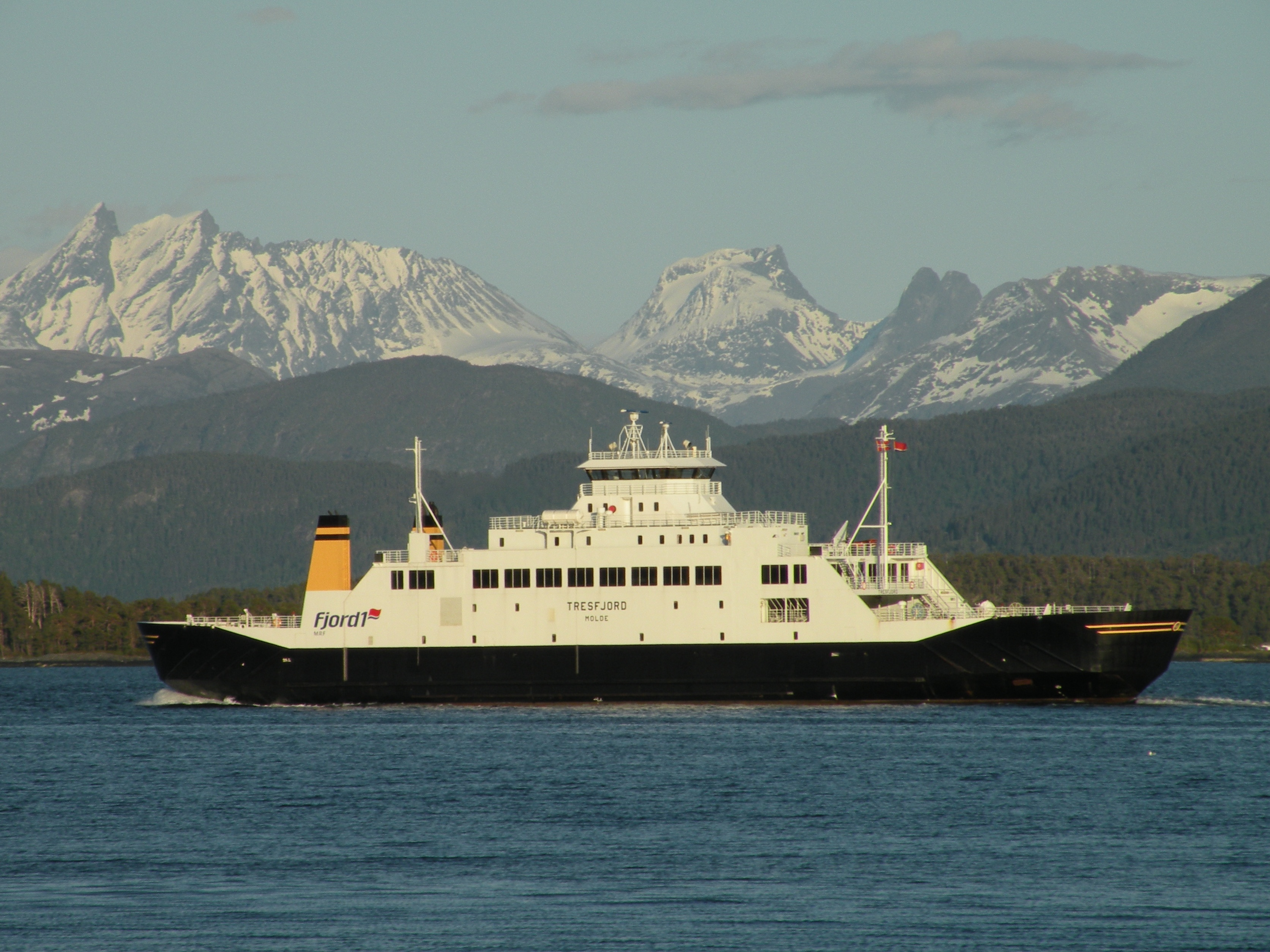 Norwegian car ferry MF Tresfjord (built 1991) in Moldefjord.